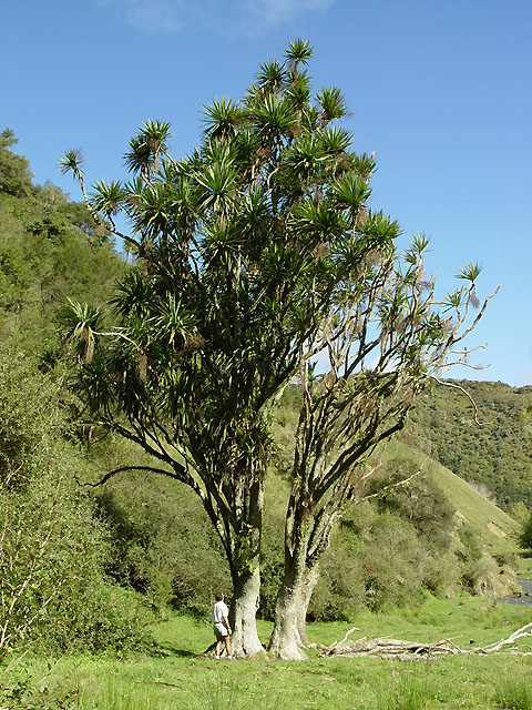 New Zealand Cabbage Tree, Cordyline australis. An old giant up Stanley Road, Waiotahi, Bay of Plenty, New Zealand.